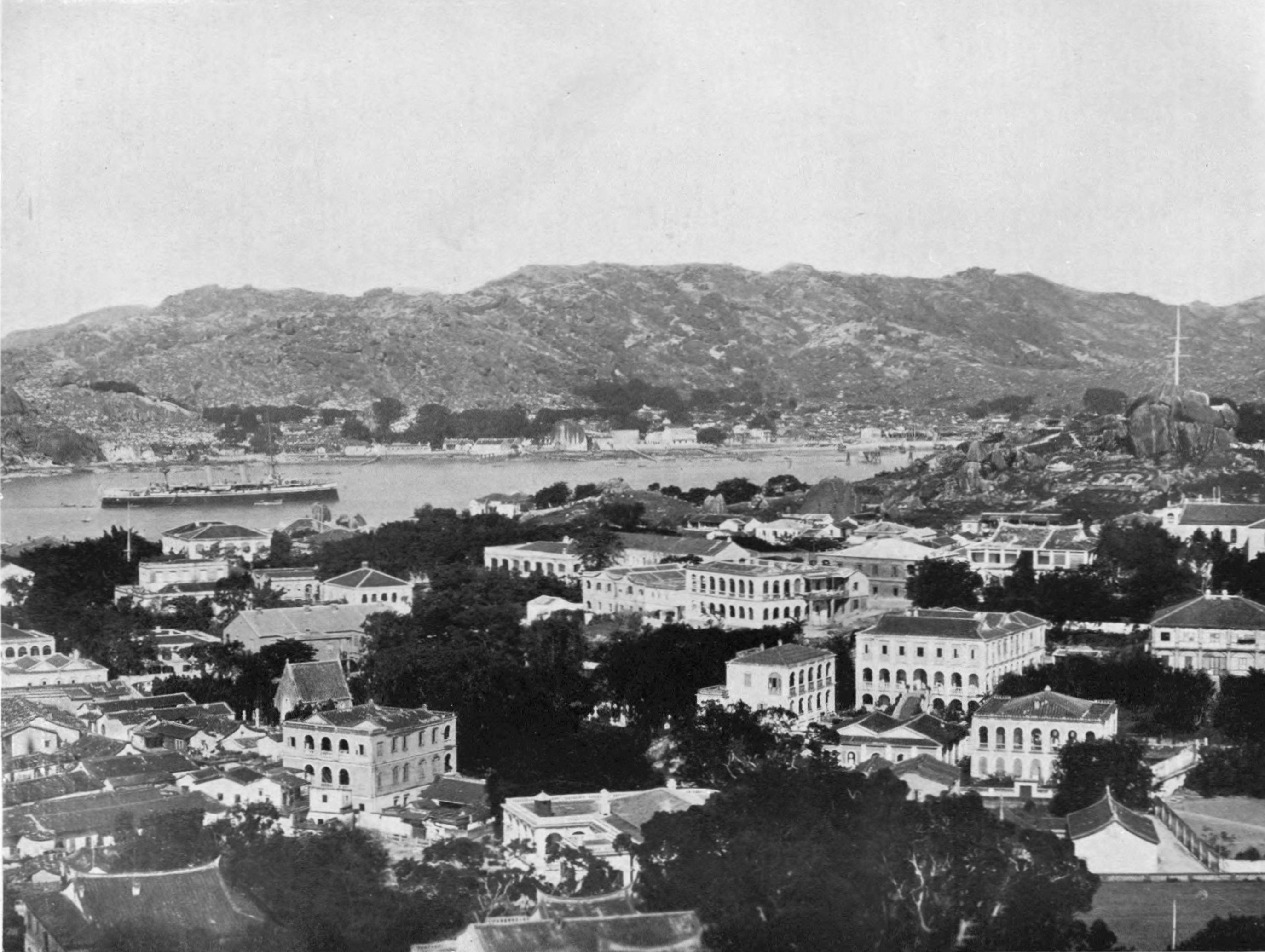 The Kulangsu International Settlement, with Amoy in the background